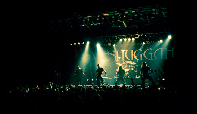 Swedish band Meshuggah performing on a live show in Melbourne - October 15, 2008.